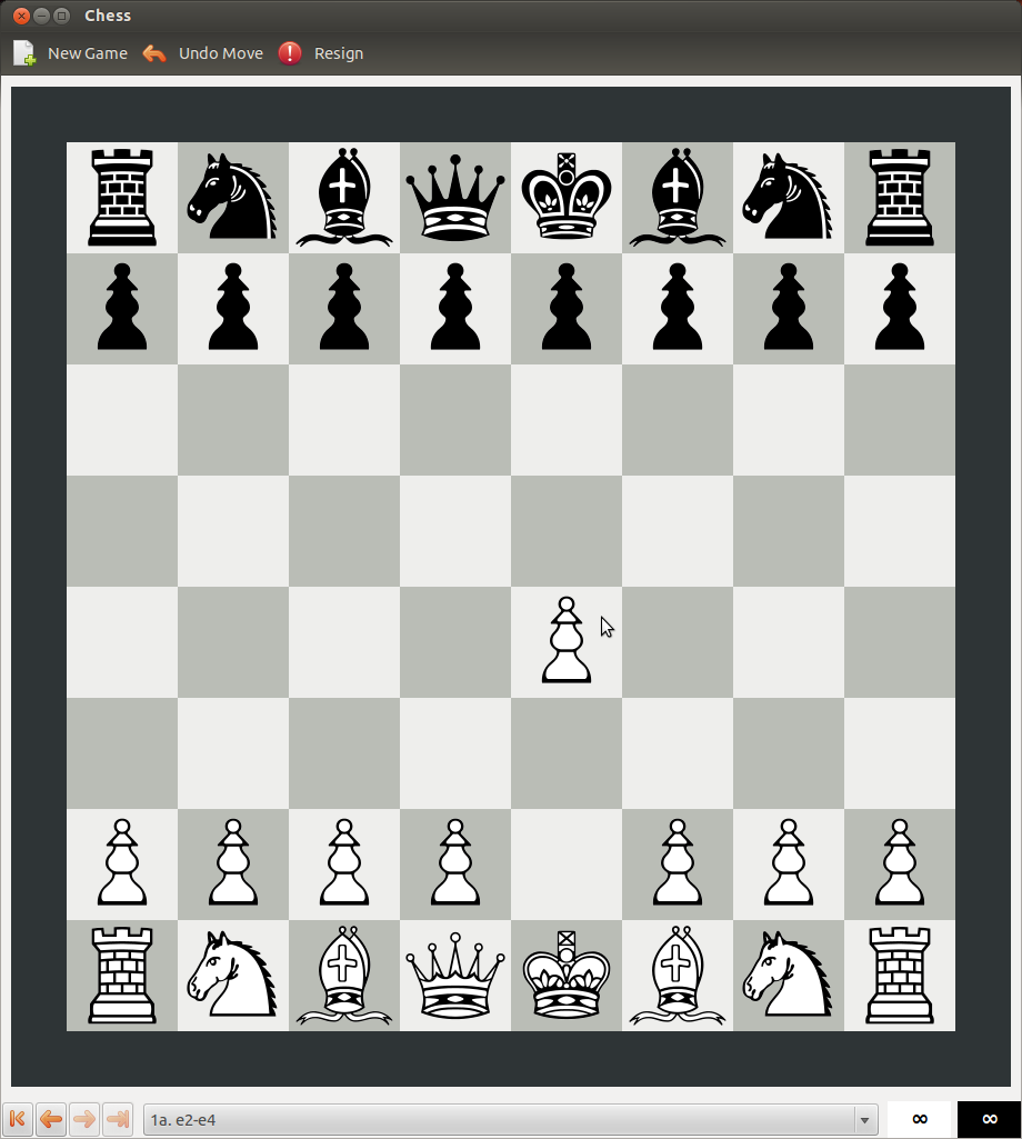 glChess